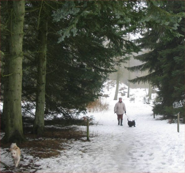 In "Den Jyske Skovhave" in "Rold Skov" in Jutland you can find the oldest "dog forrest" in Denmark - a forrest where dogs are allowed to run around without a dog leash.